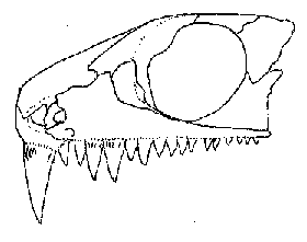 Reconstruction of the skull of Colobomycter, redrawn and modified after Modesto, S. P. et R. R. Reisz, 2008.